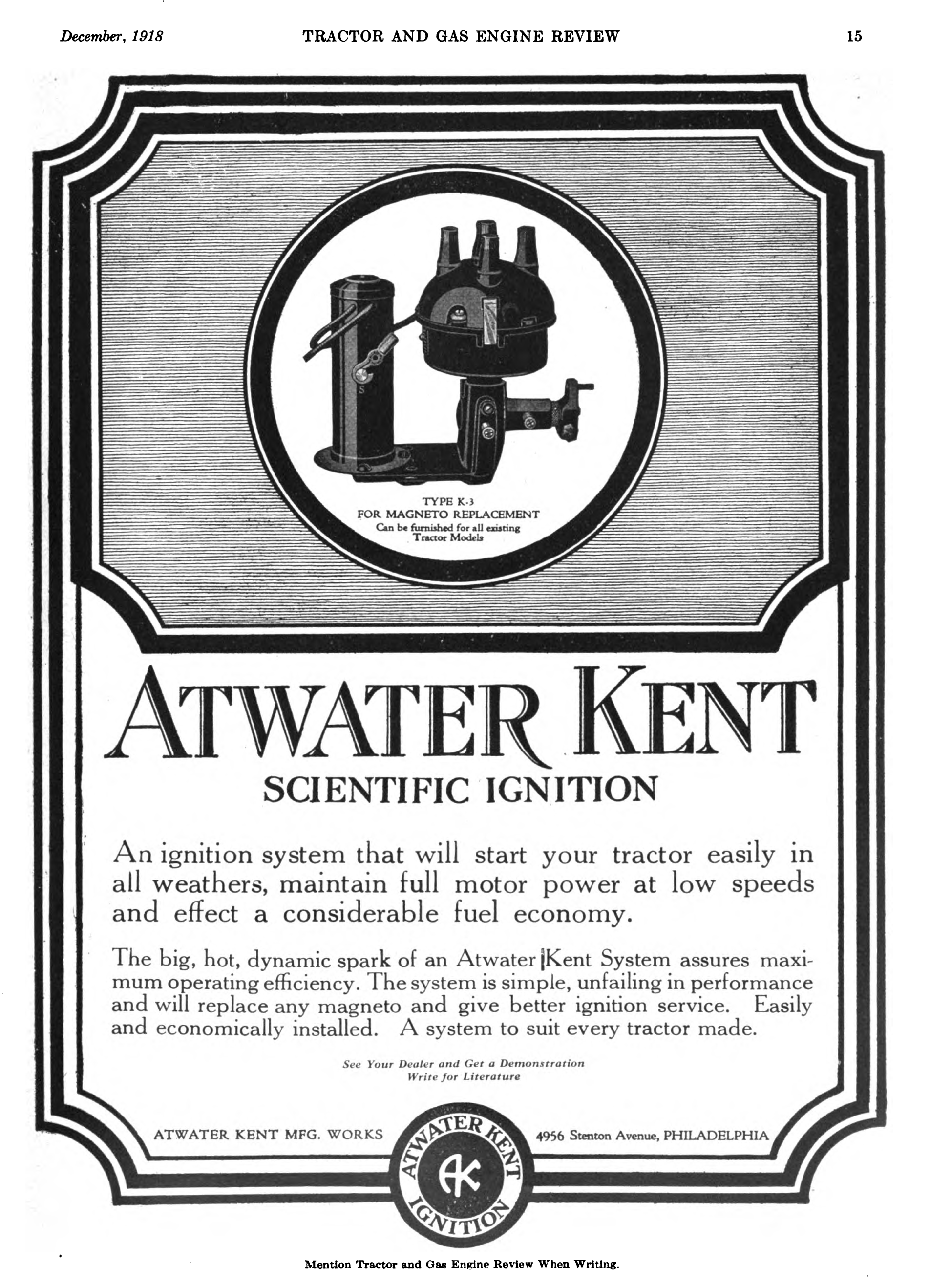 An advertisement for Atwater Kent ignition systems for tractors, in Tractor and Gas Engine Review, volume 11, issue 12, December 1918.